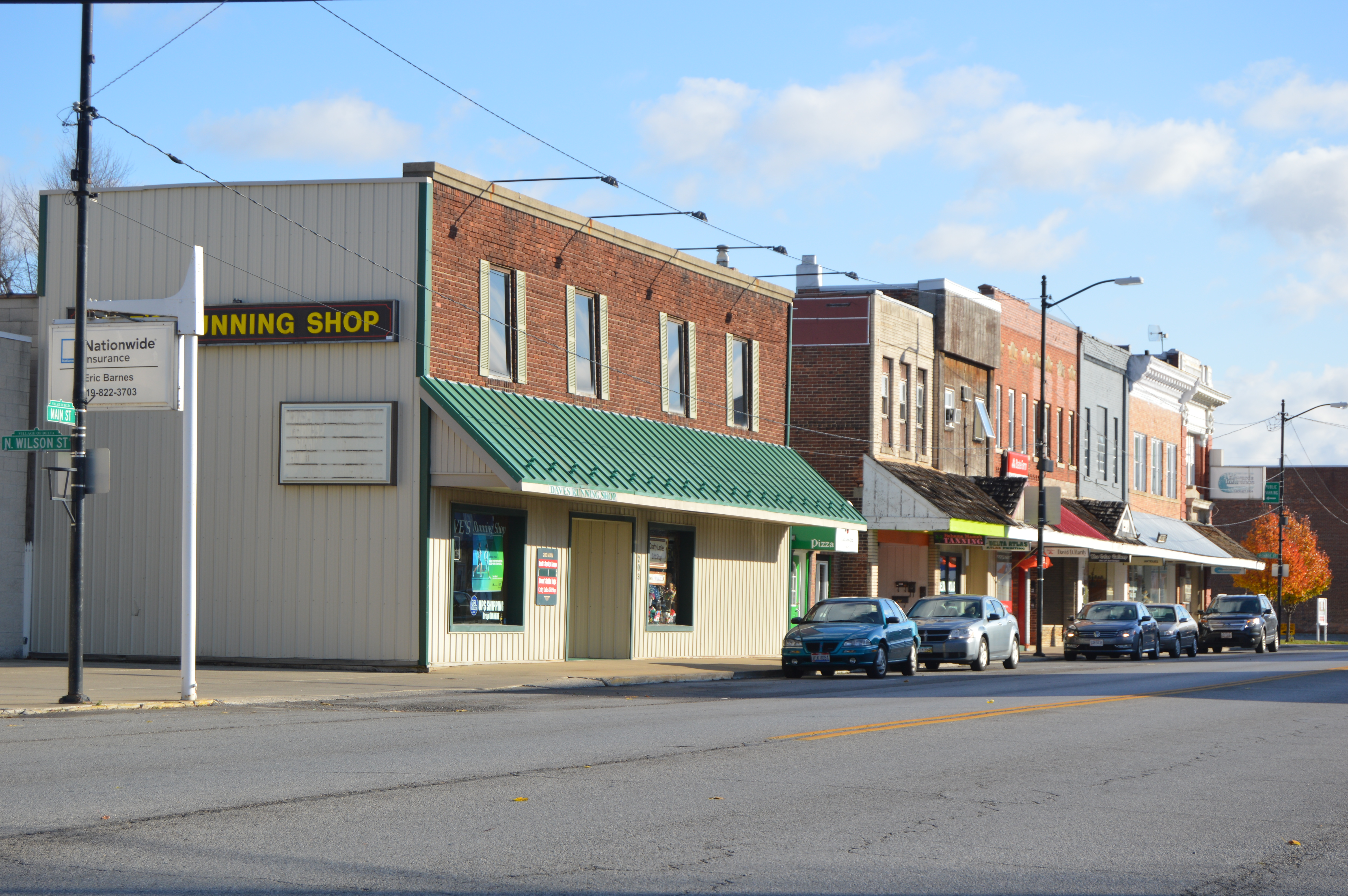 Buildings on Main Street (U.S. Route 20 Alternate/State Route 2) east of the Wilson Street intersection in Delta, Ohio, United States.